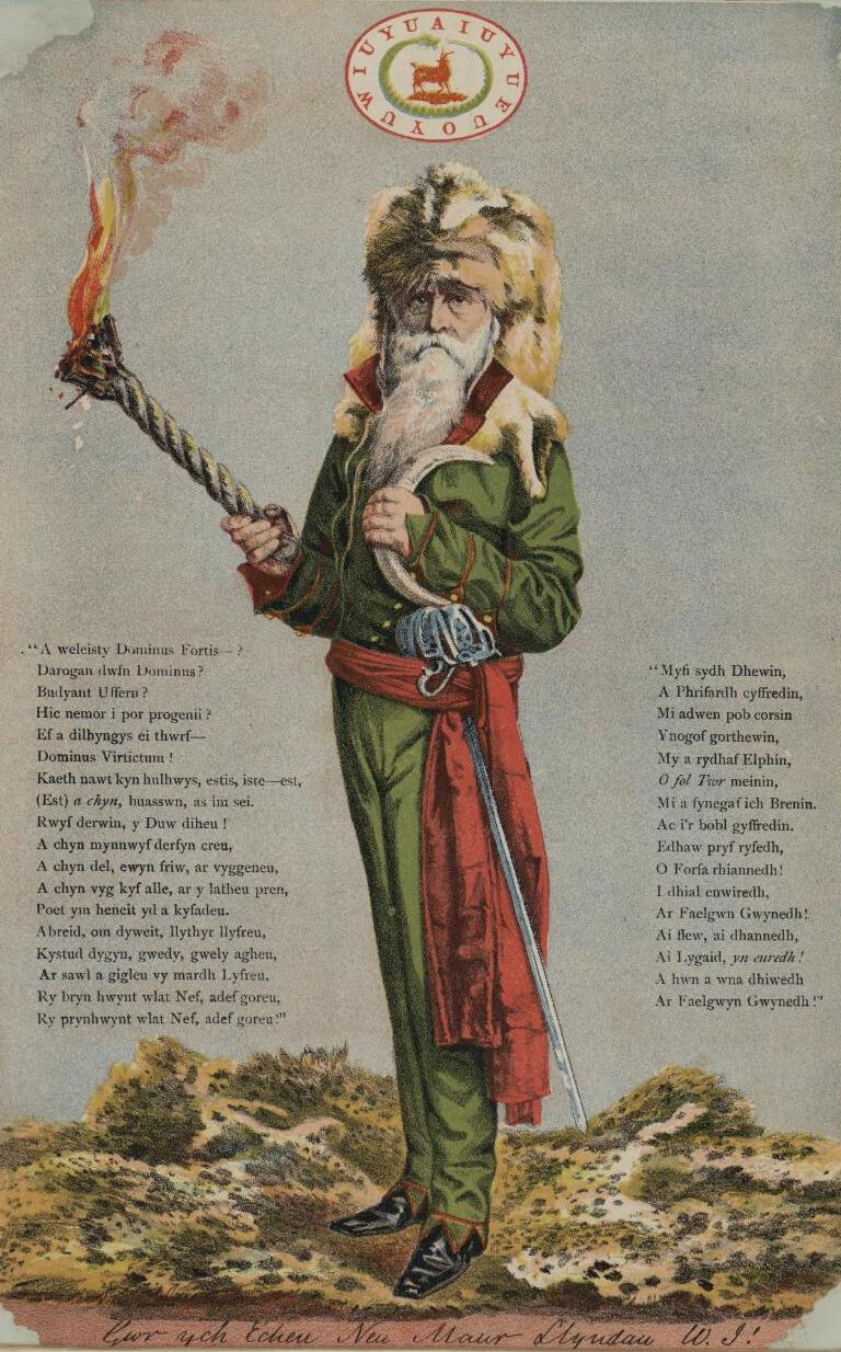 A portrait from the Welsh Portrait Collection at the National Library of Wales. Depicted person: William Price – Welsh physician, born 1800